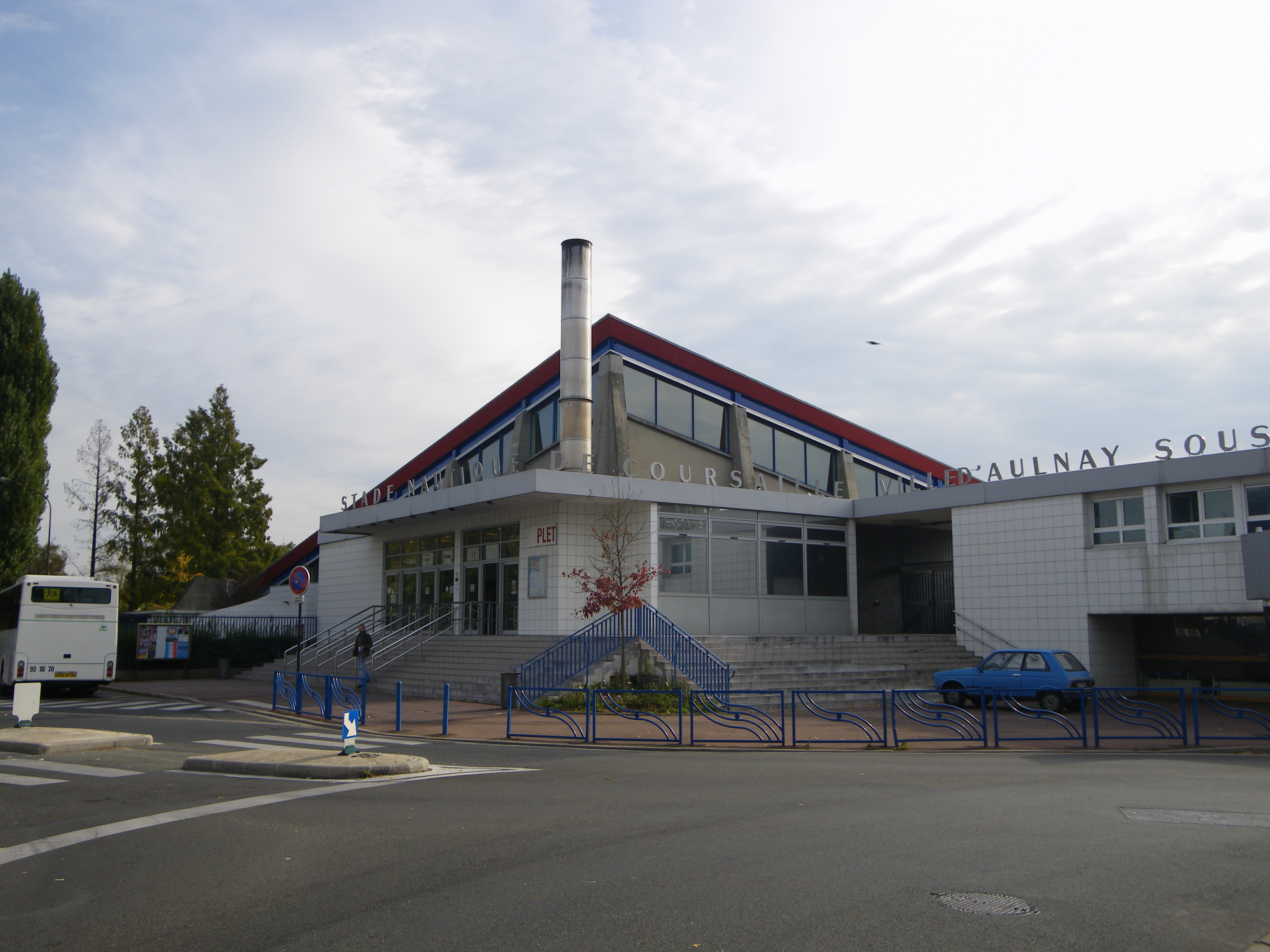 Swimming stadium in Aulnay-sous-Bois municipality, Seine-Saint-Denis, France.